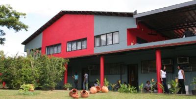 Current headquarters of the Dean of Research, in the University City of San Juan de los Morros. Property of UNERG. Various administrative and research activities are carried out here that contribute to the university community and the country.